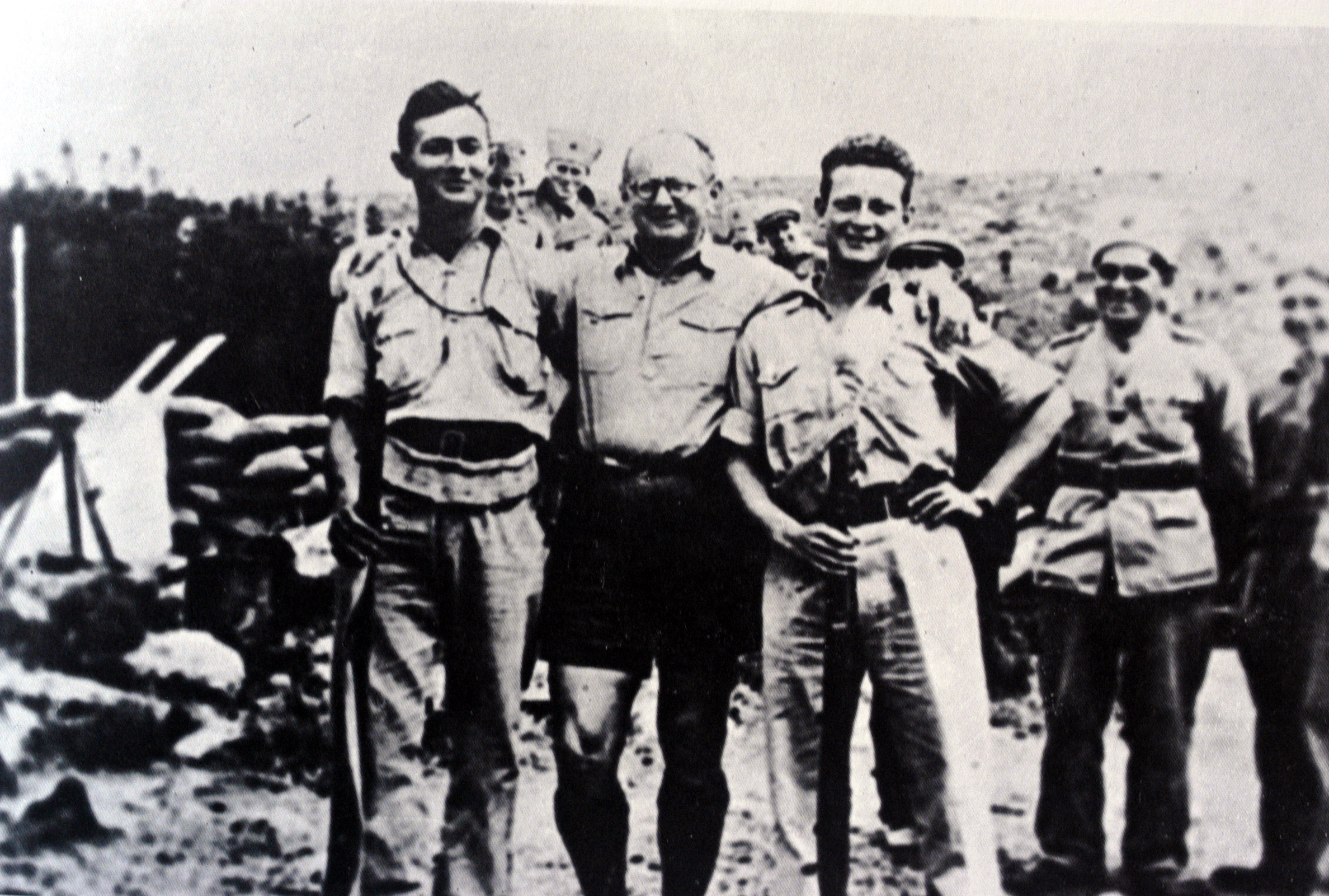 "At Kibbutz Hanita in 1938. Left to right: Moshe Dayan, Yitshaq Sadeh, Yigal Allon."